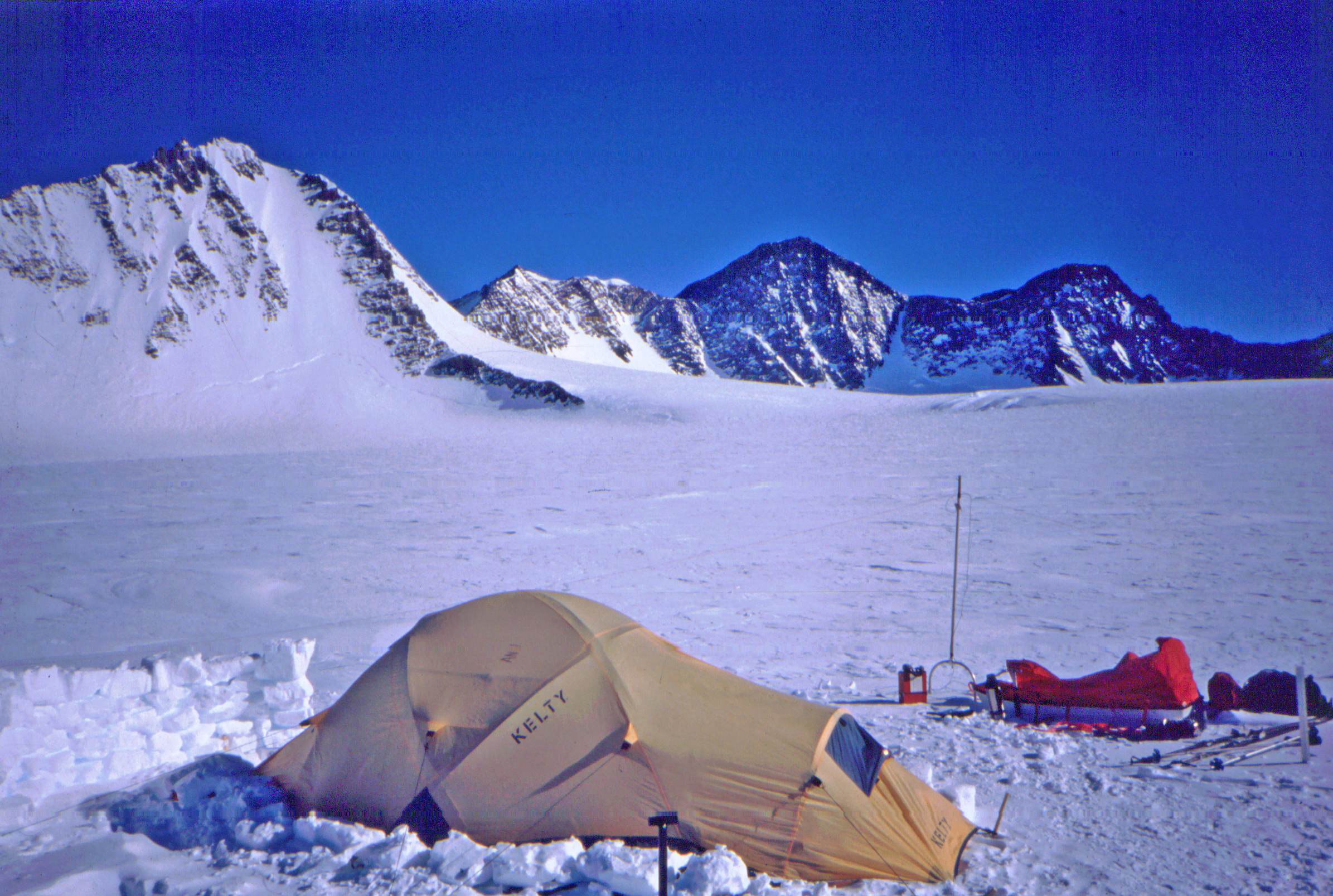 The Cima Chiavari is the black mountain in the middle of the picture, while the Cima Genova is a smaller peak to the left of the main one. The white peak to the left on the image is not so high and, at the time of the first climb of the Cima Chiavari, it was unclimbed